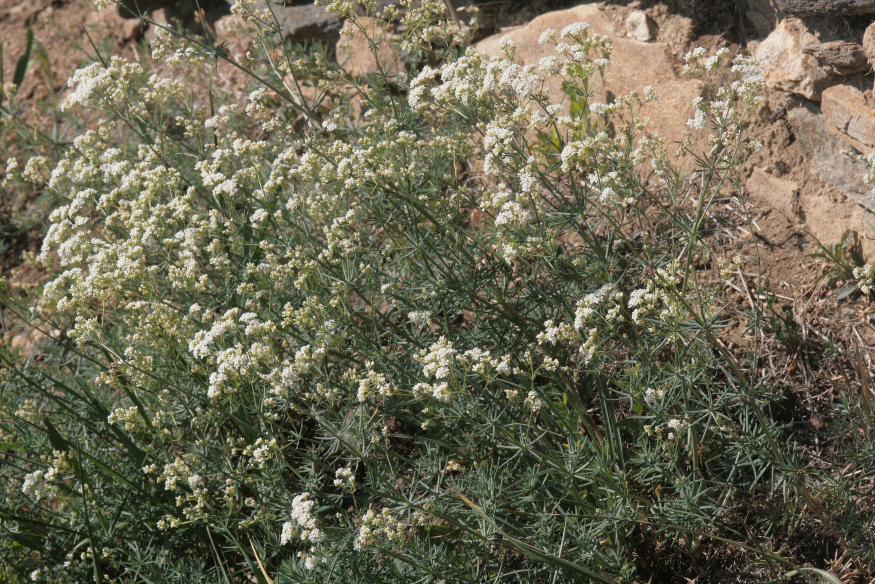 Galium glaucum